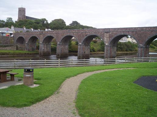 Newport Viaduct, Co Mayo